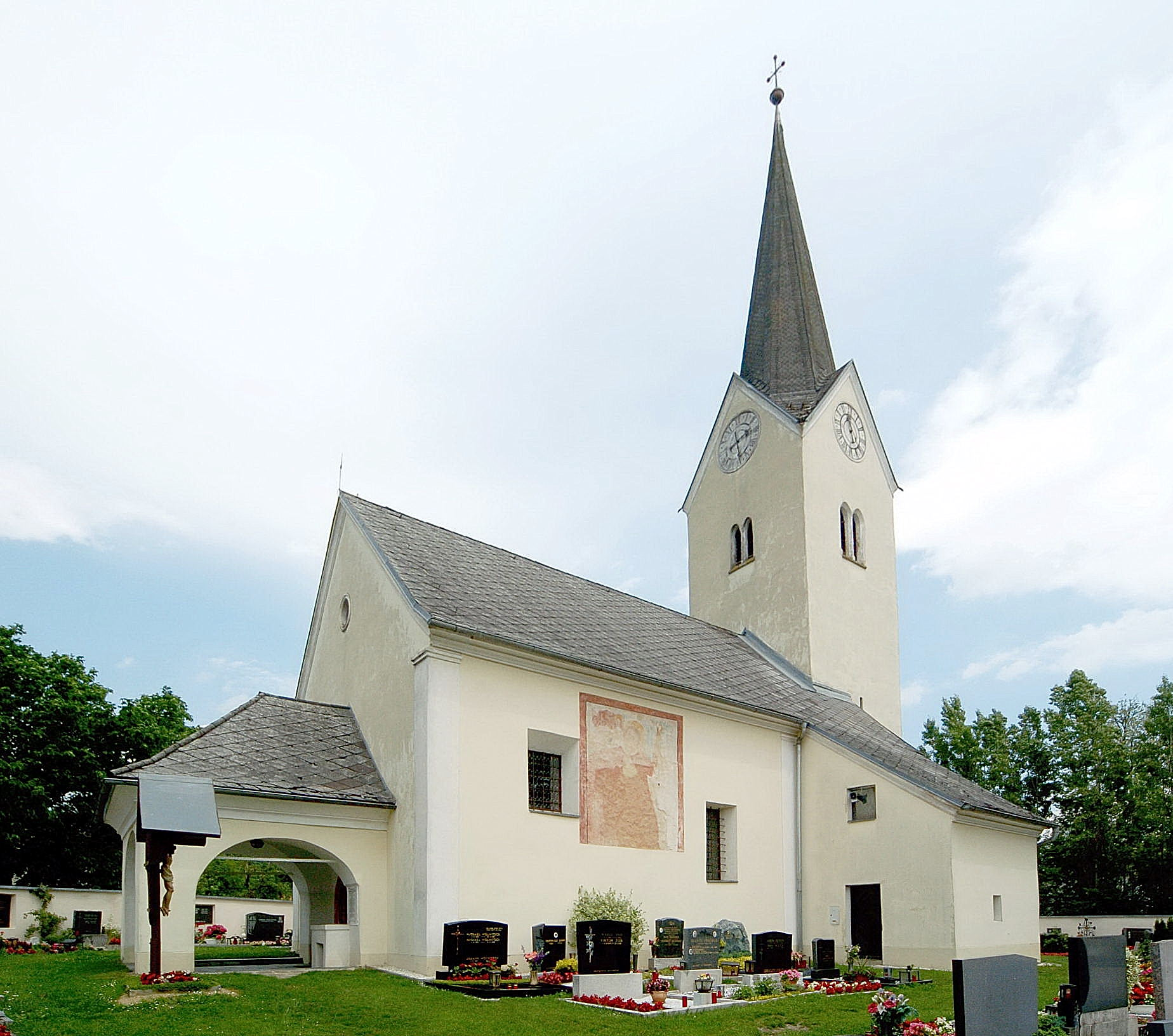 Subsidiary church Saint Martin in Leibsdorf, municipality Poggersdorf, district Klagenfurt Land, Carinthia, Austria, EU